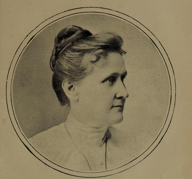 The medium Leonora Piper.